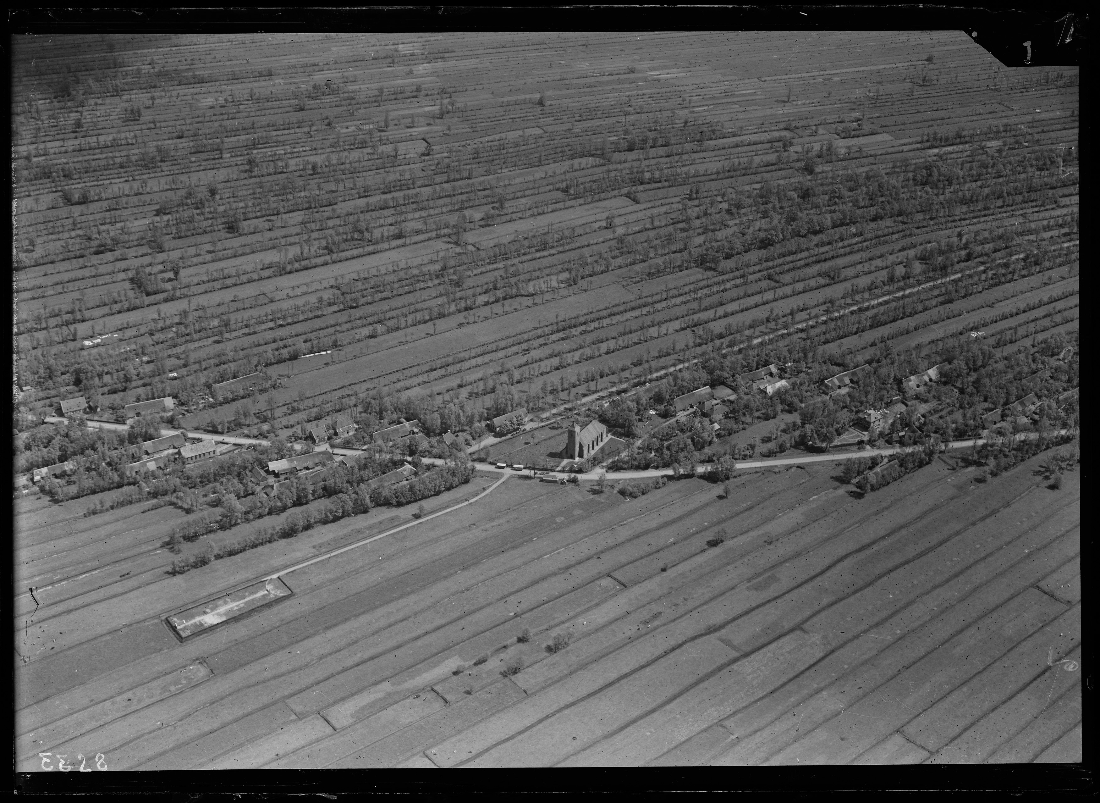 Aerial photograph the 'slagenlandschap' (plots allotted in narrow strips) of Rouveen, Staphorst, The Netherlands. Dutch reformed church building.